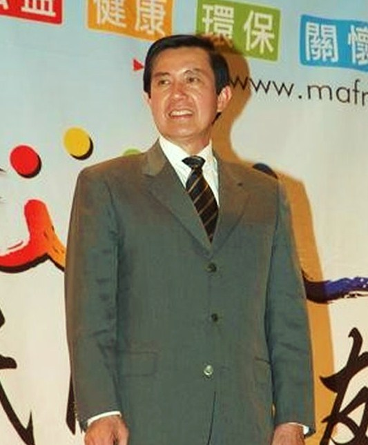 Republic of China President Ma Yingjiu visits Ma Youhui.